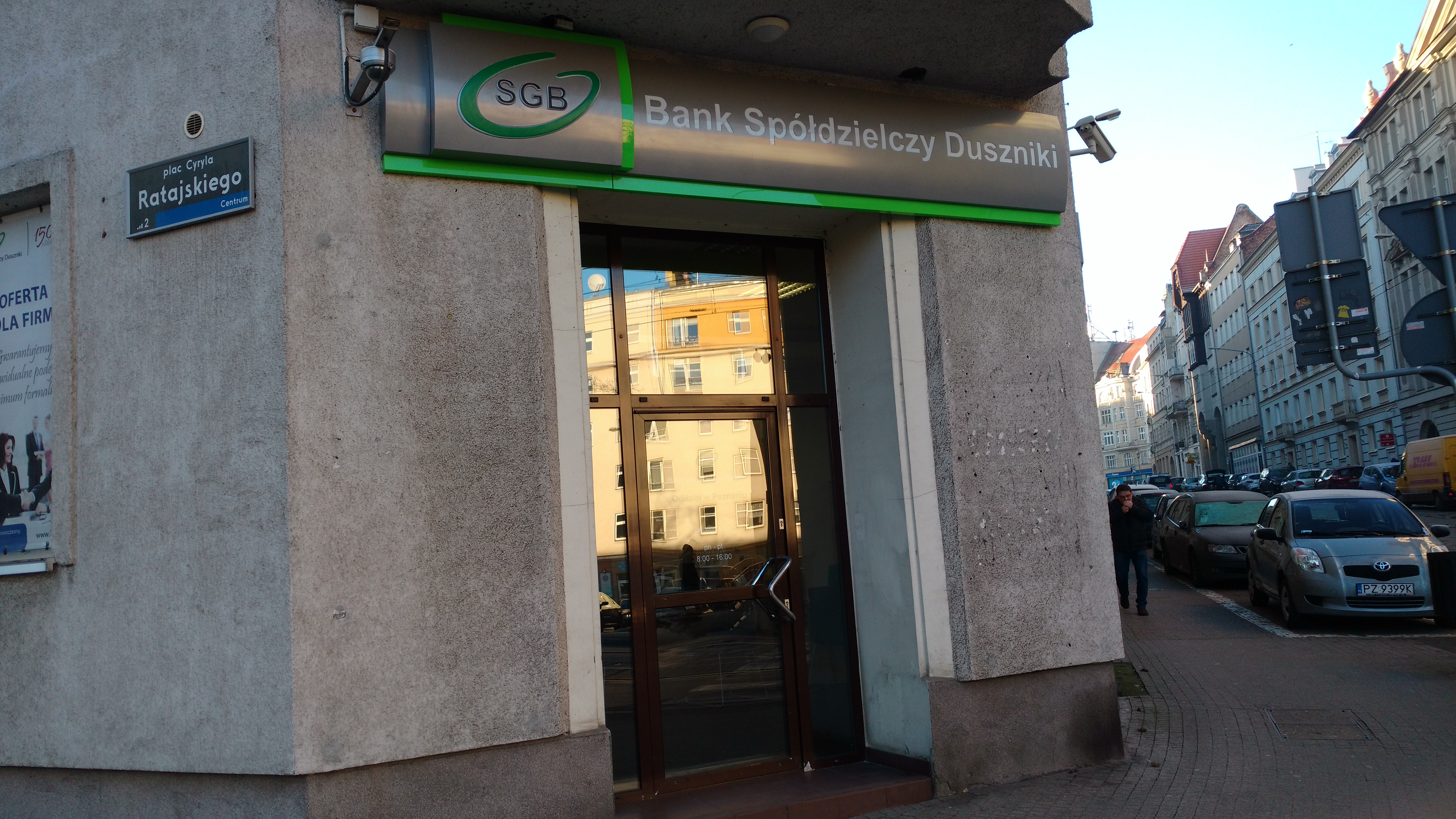 Branch of the Bank Spółdzielczy Duszniki on the Cyryla Ratajskiego Square in Poznań